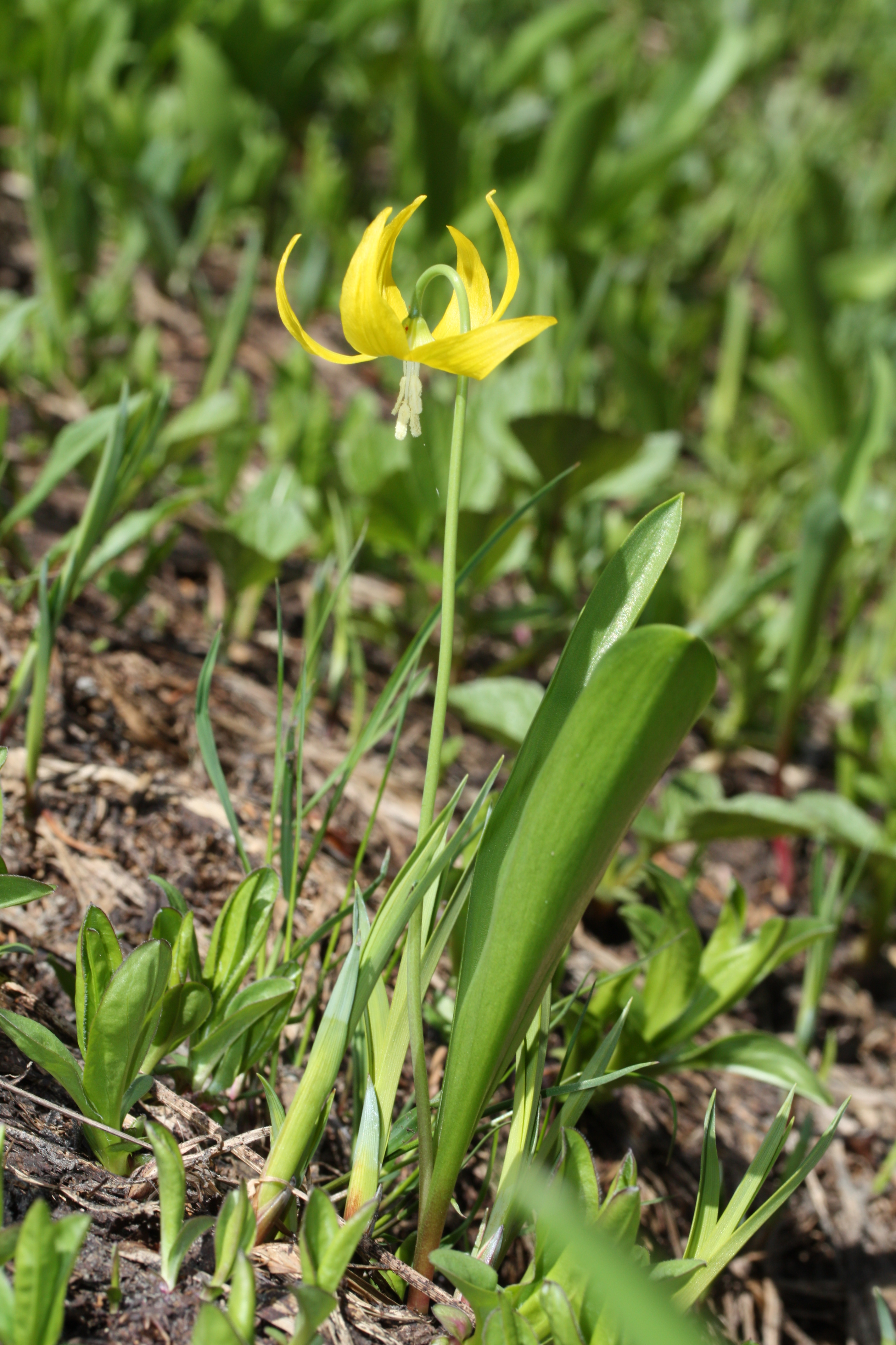 Yellow Fawn Lily